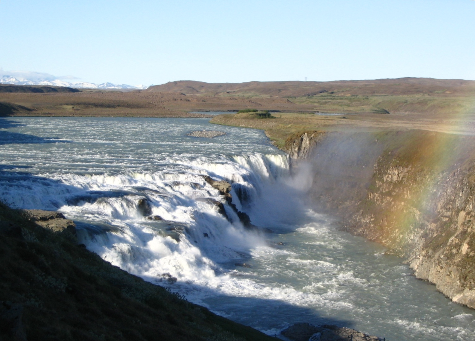 Gullfoss, Iceland